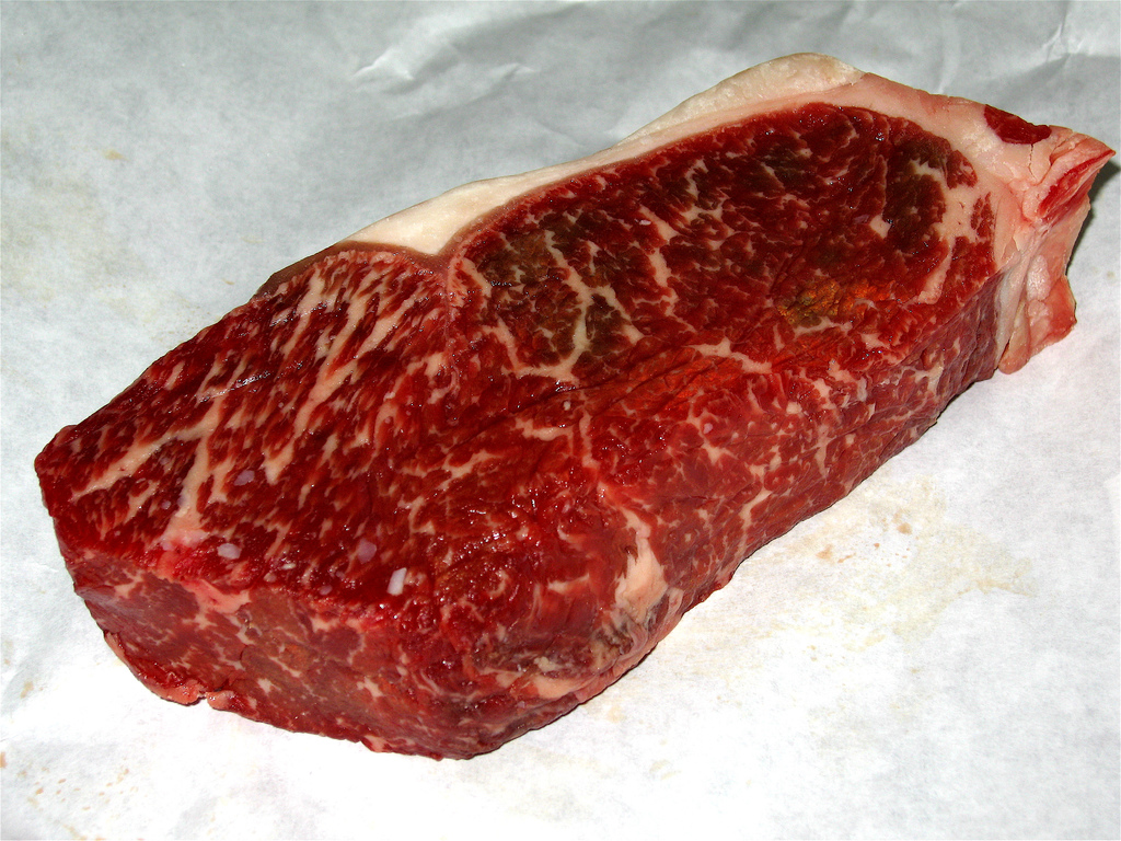 Prime beef New York strip steak from Cetak's Gourmet Meats, Lincoln, NE. Photo made on 2006-10-01 by Maggie Osterberg and released to Wikipedia under CC-BY-SA 2.5